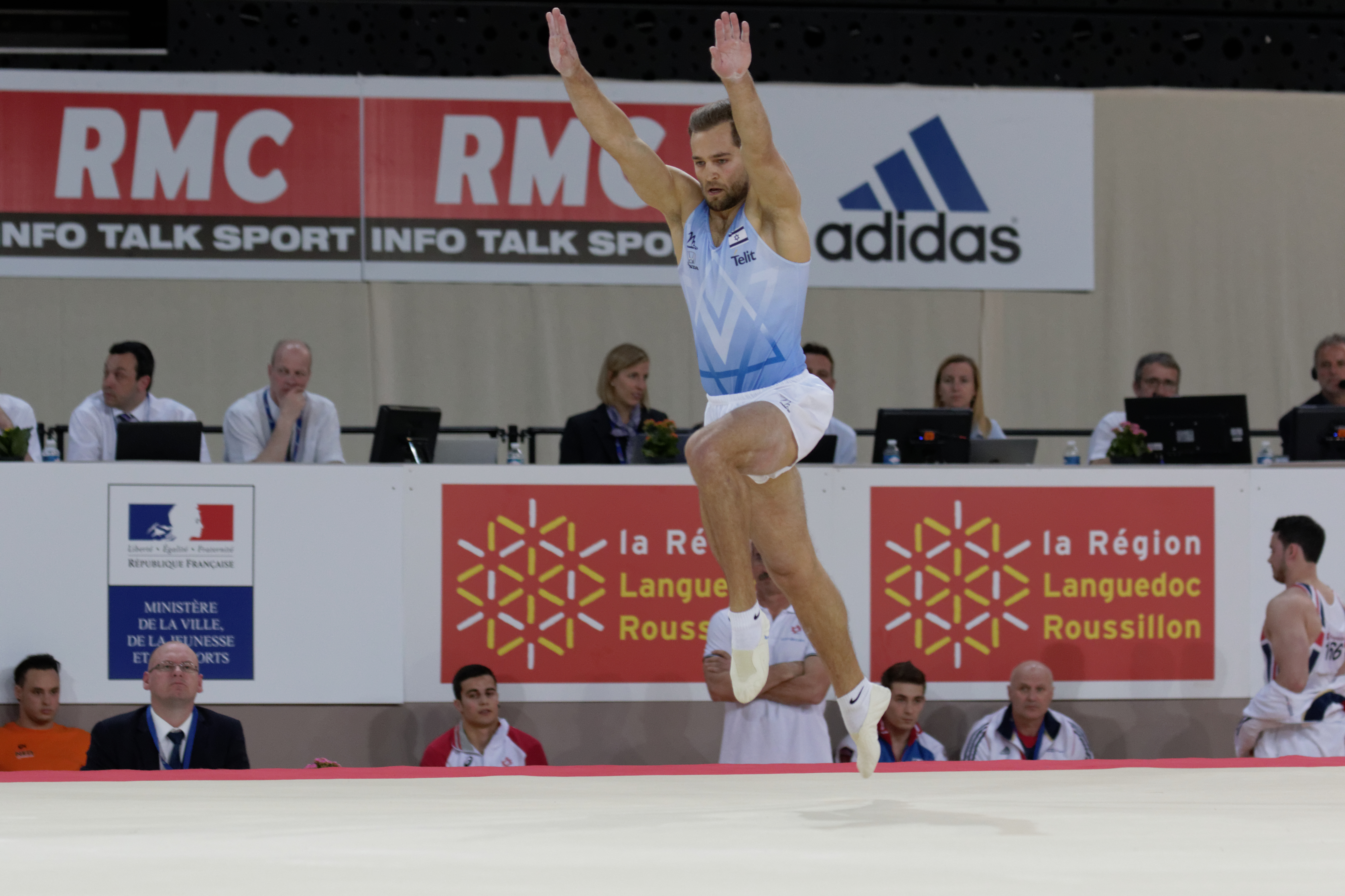 2015 European Artistic Gymnastics Championships. Floor.